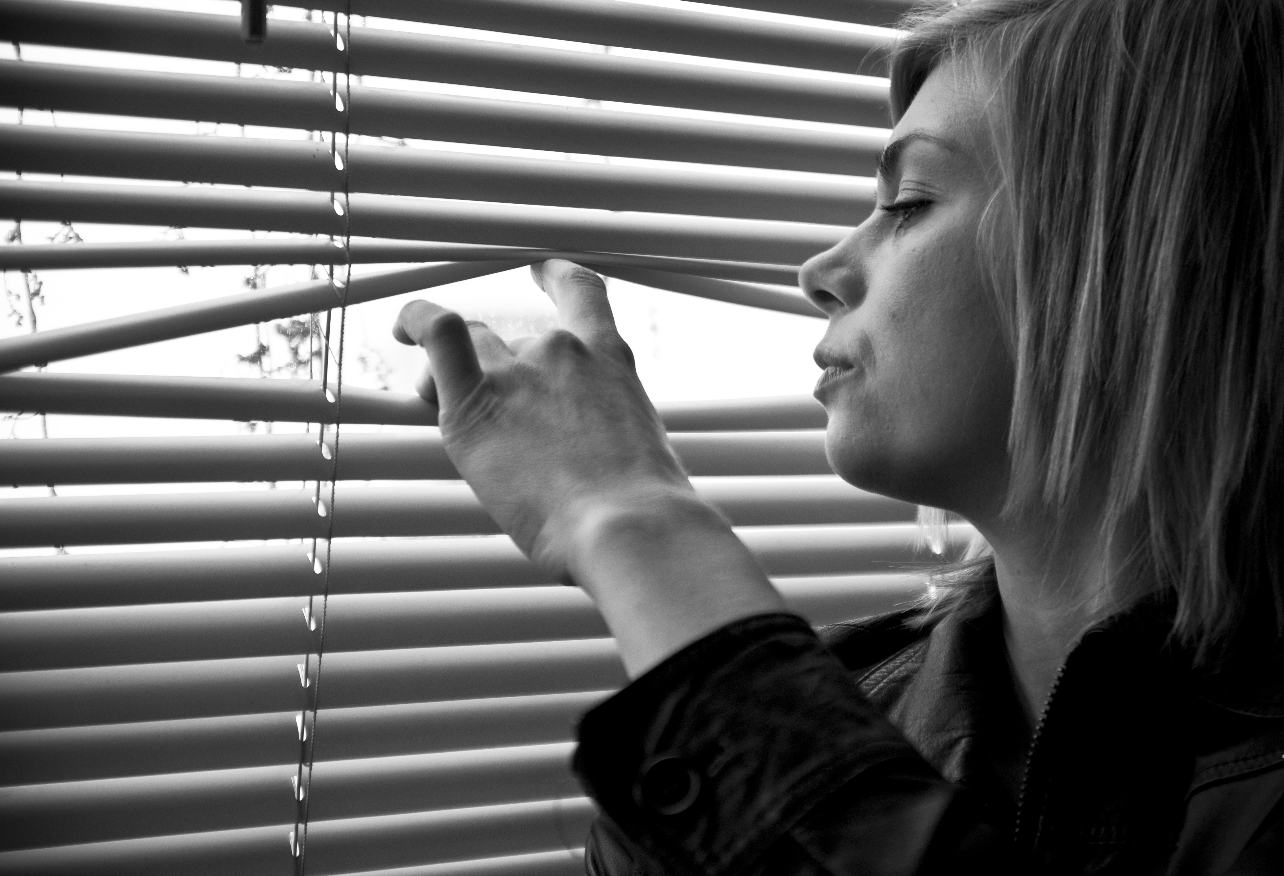 Swedish singer-songwriter Anna Ternheim performing a video session for french webzine Le Cargo